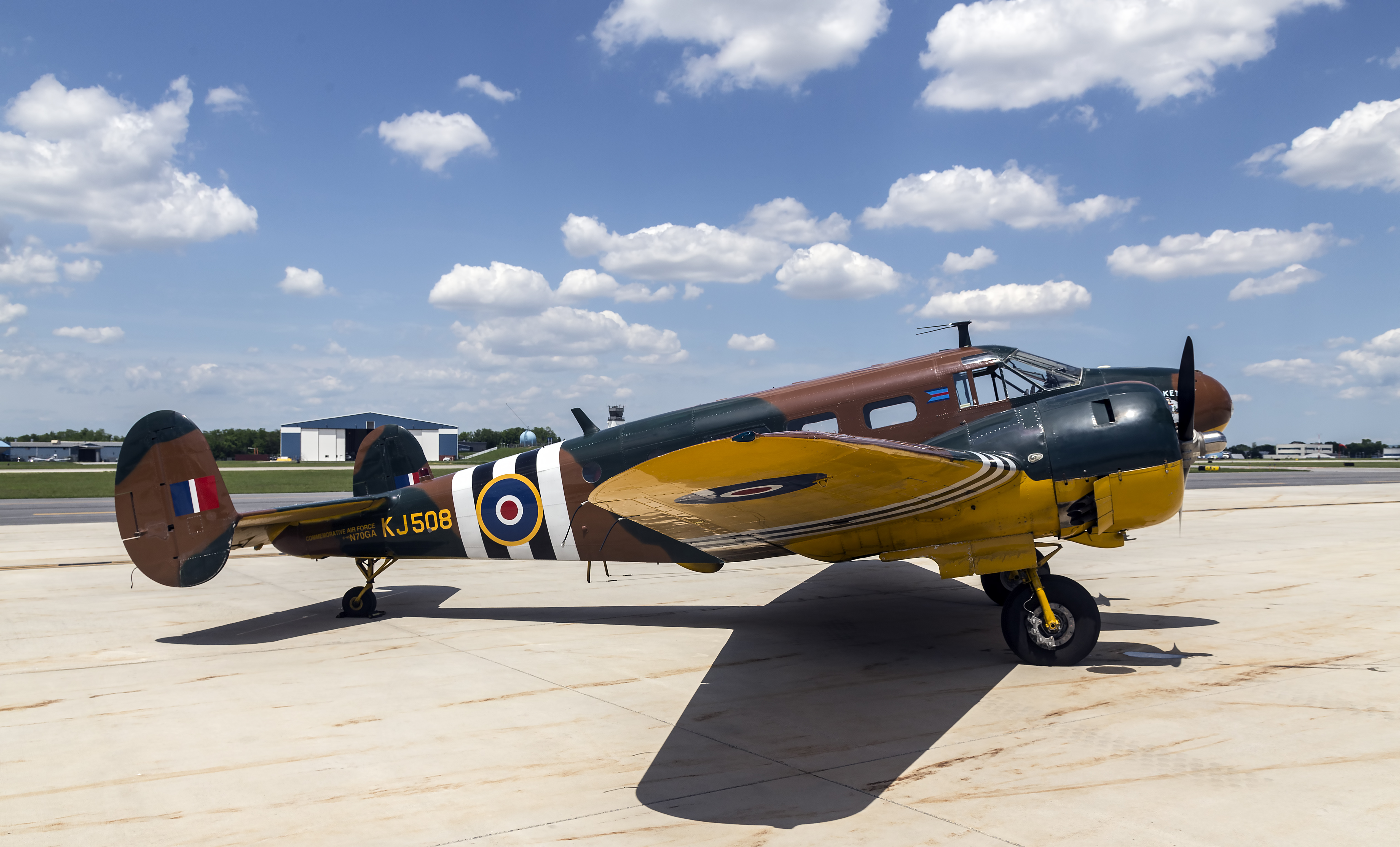 N70GA Beech 18/C-45 Expeditor at Hagerstown, Maryland, USA